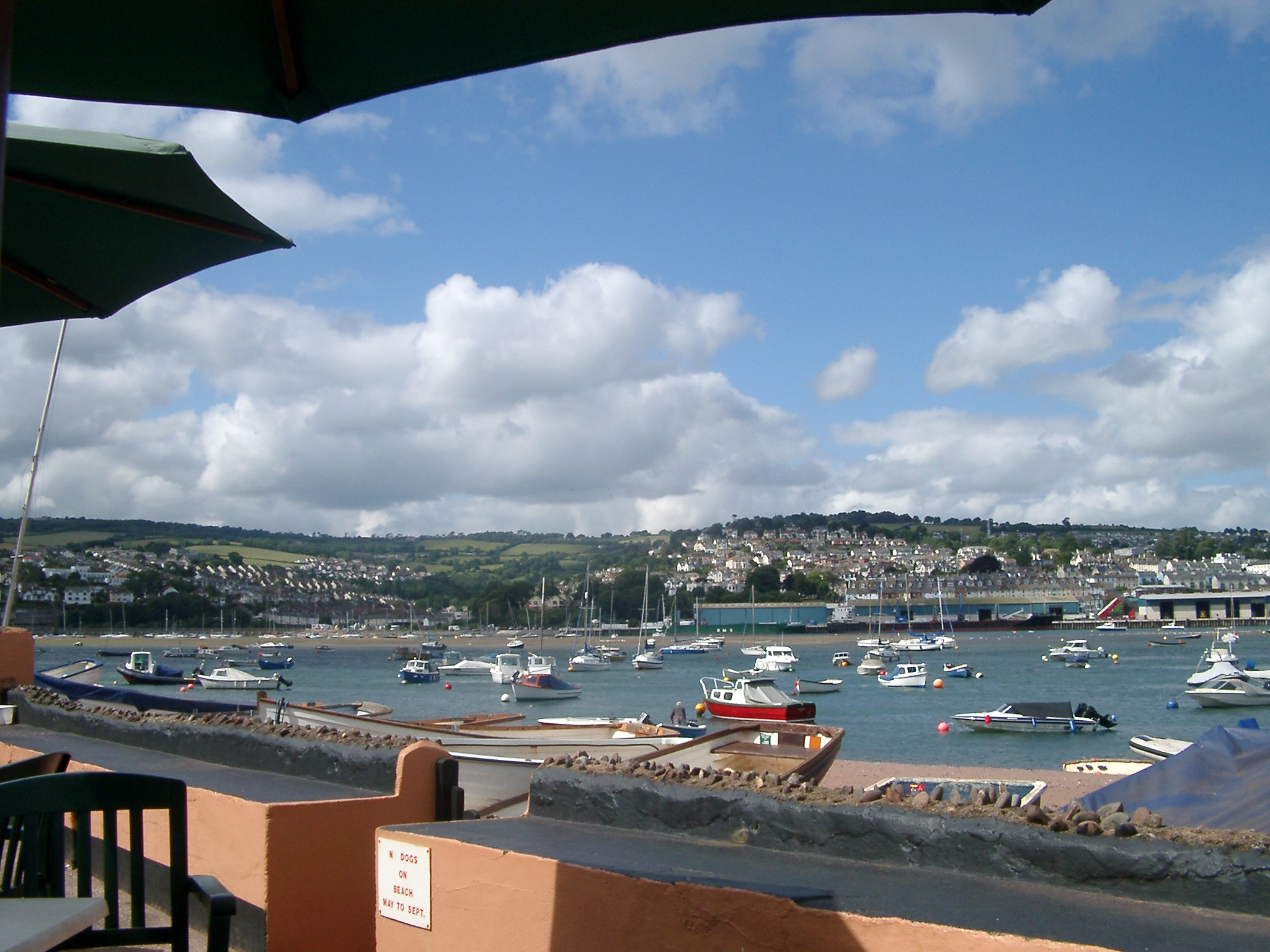 view form Sheldon side across the Teign direction of Teignmouth